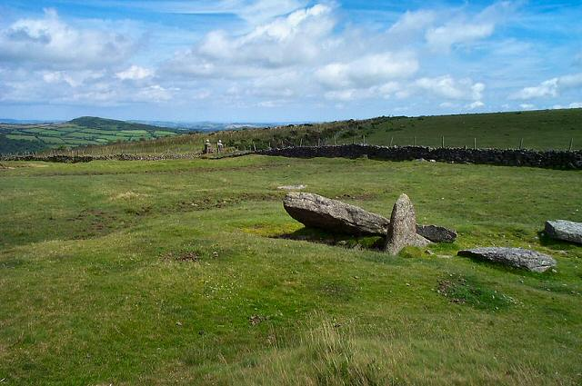 Corringdon Ball - Dartmoor. The long barrow at Corringdon Ball Gate (SX 670614). Brent Hill is in the background with the slightly absurd Brent manorial gateposts in the mid ground.